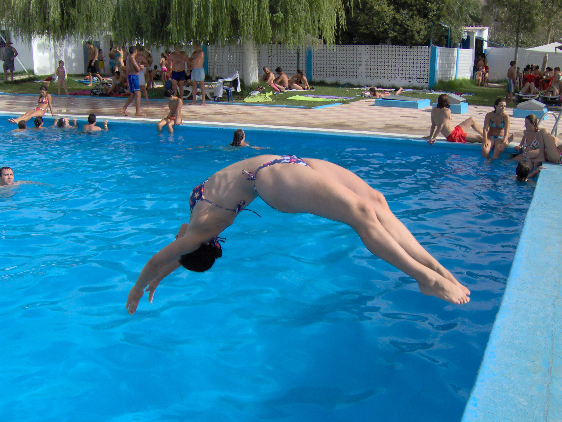 Public swimming pool of Almargen, Málaga Spain.